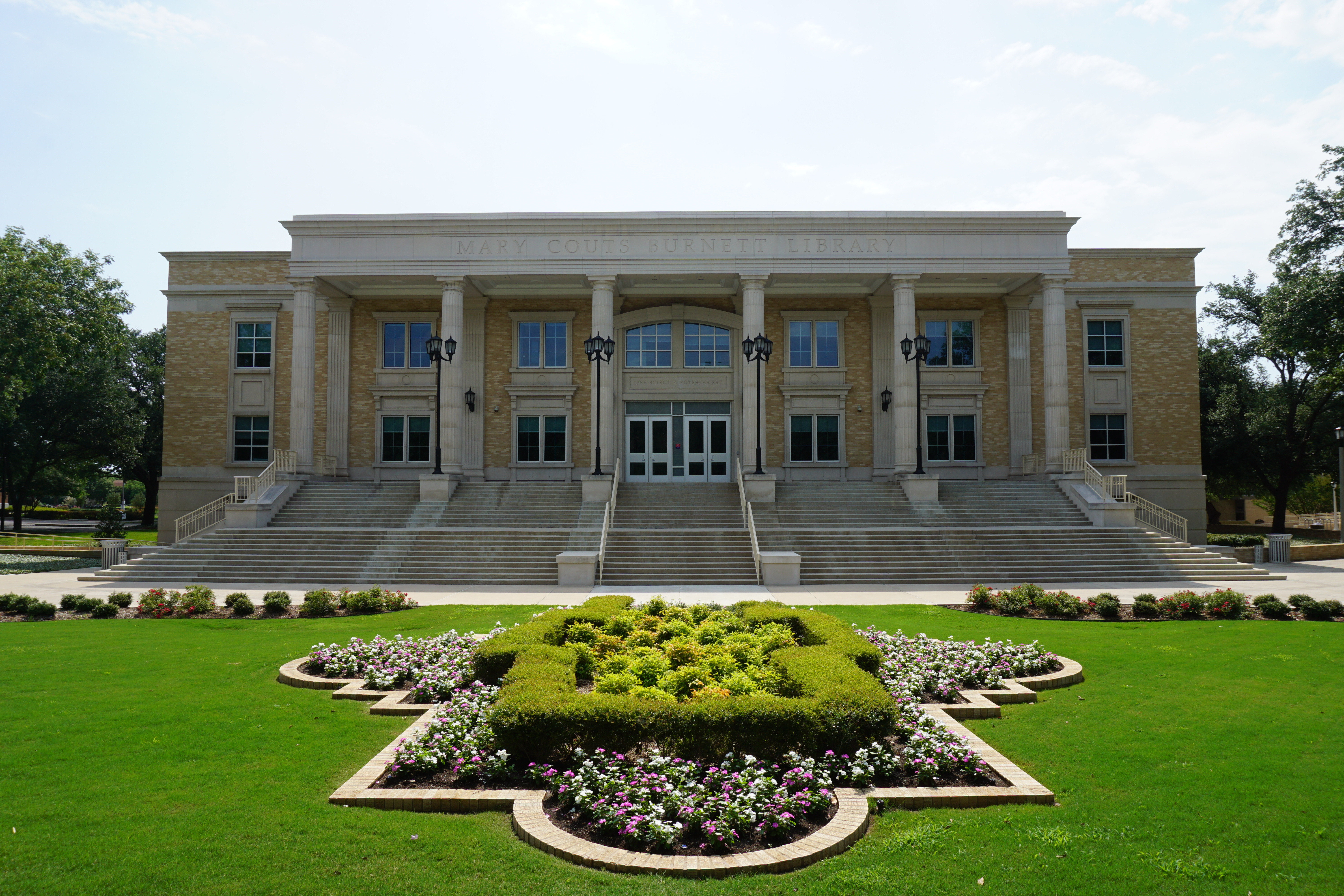 The Mary Couts Burnett Library on the campus of Texas Christian University in Fort Worth, Texas (United States).